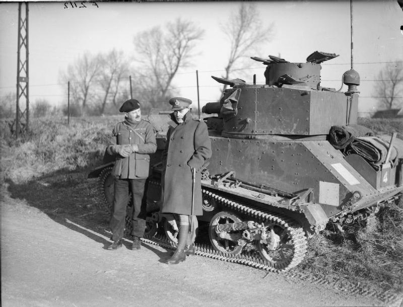 The British Army in France 1940 The Canadian C-in-C, Major General McNaughton (right) with a Royal Tank Regiment officer and a Light Tank Mk VI, 11 January 1940.